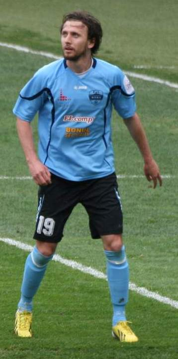 Photo of Slovak footballer Henrich Benčík